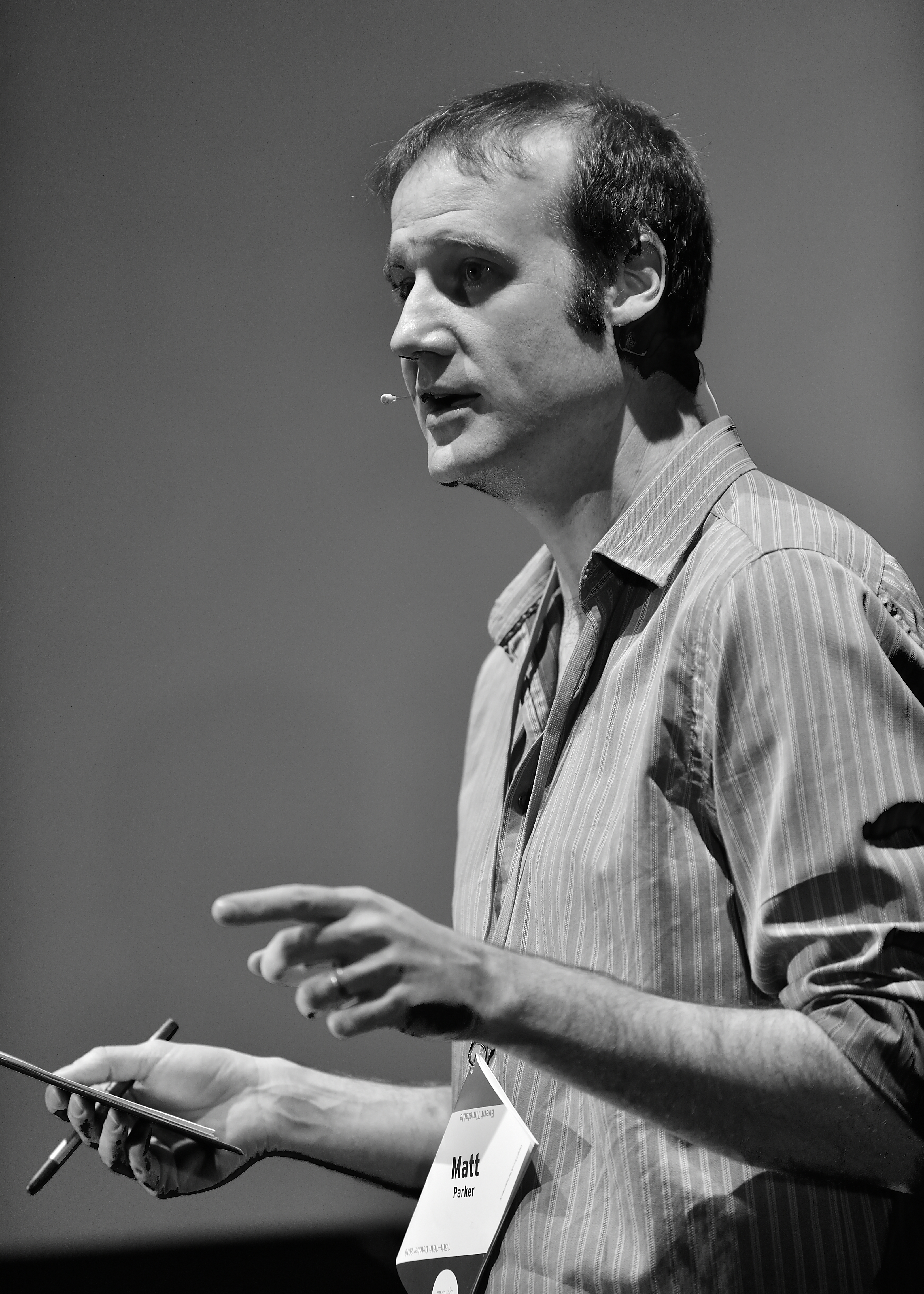 Matt Parker, at QED 2016